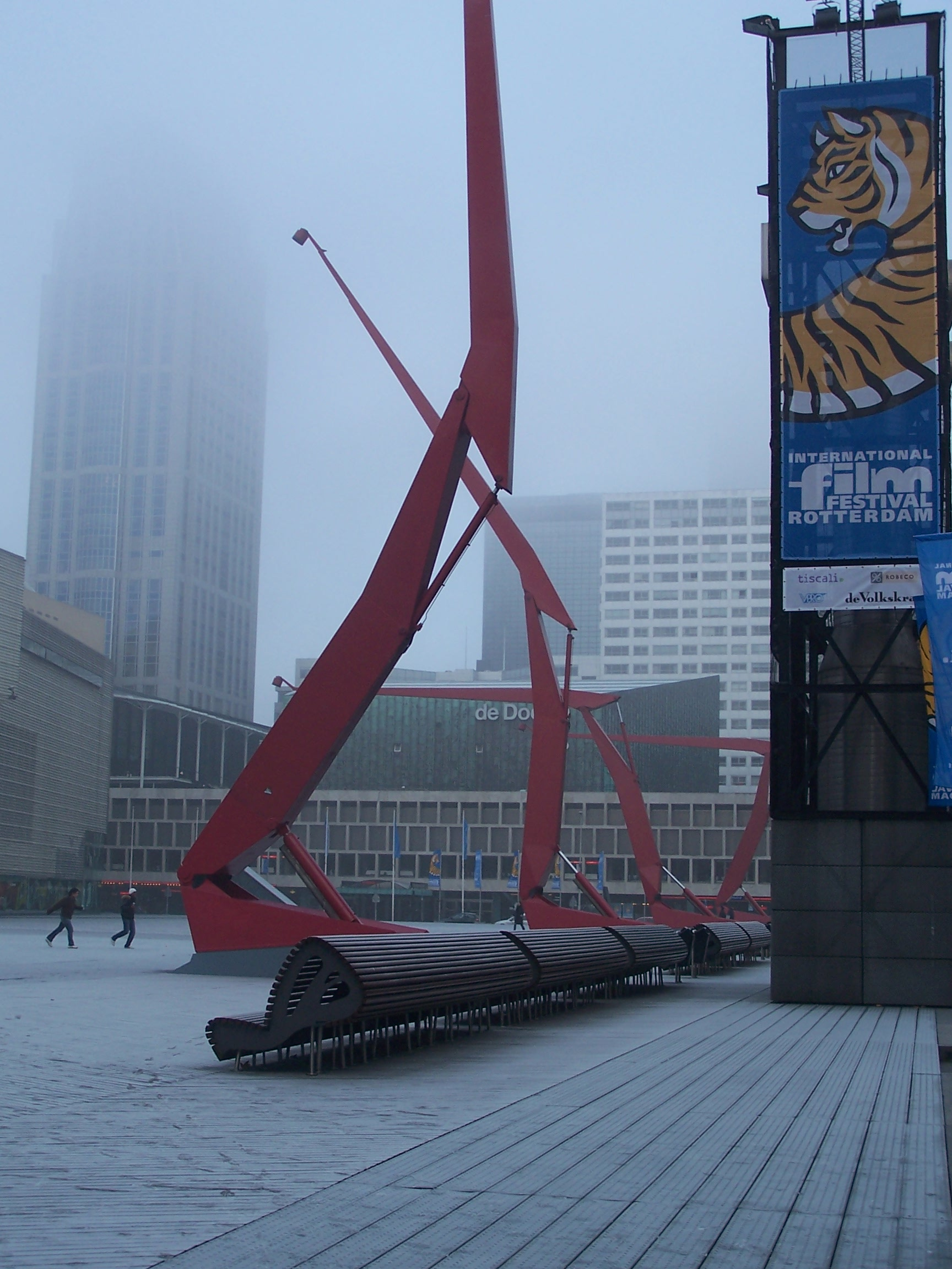 Schouwburgplein in Rotterdam/The Netherlands